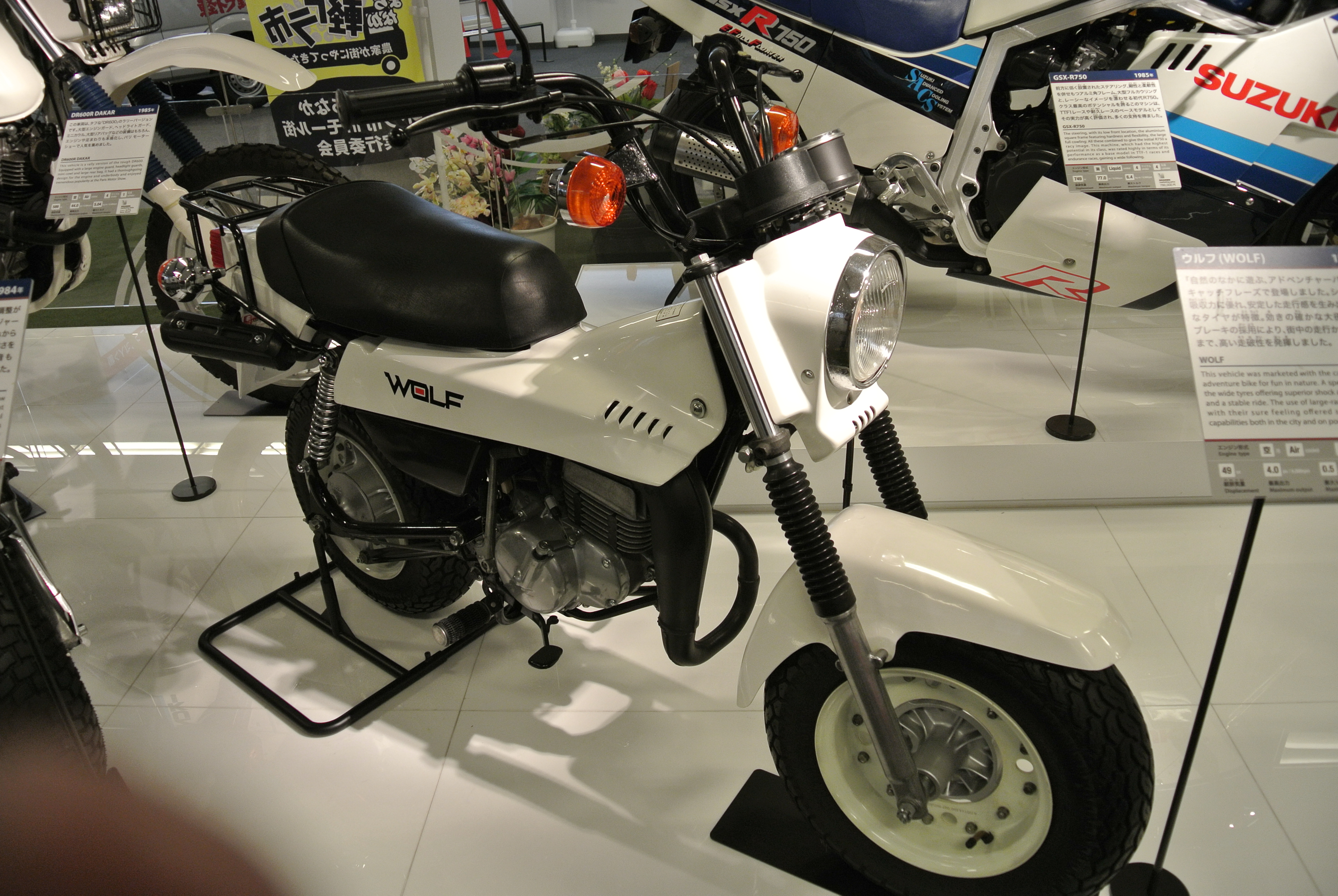 1982 Suzuki WOLF50 in the Suzuki History Museum.